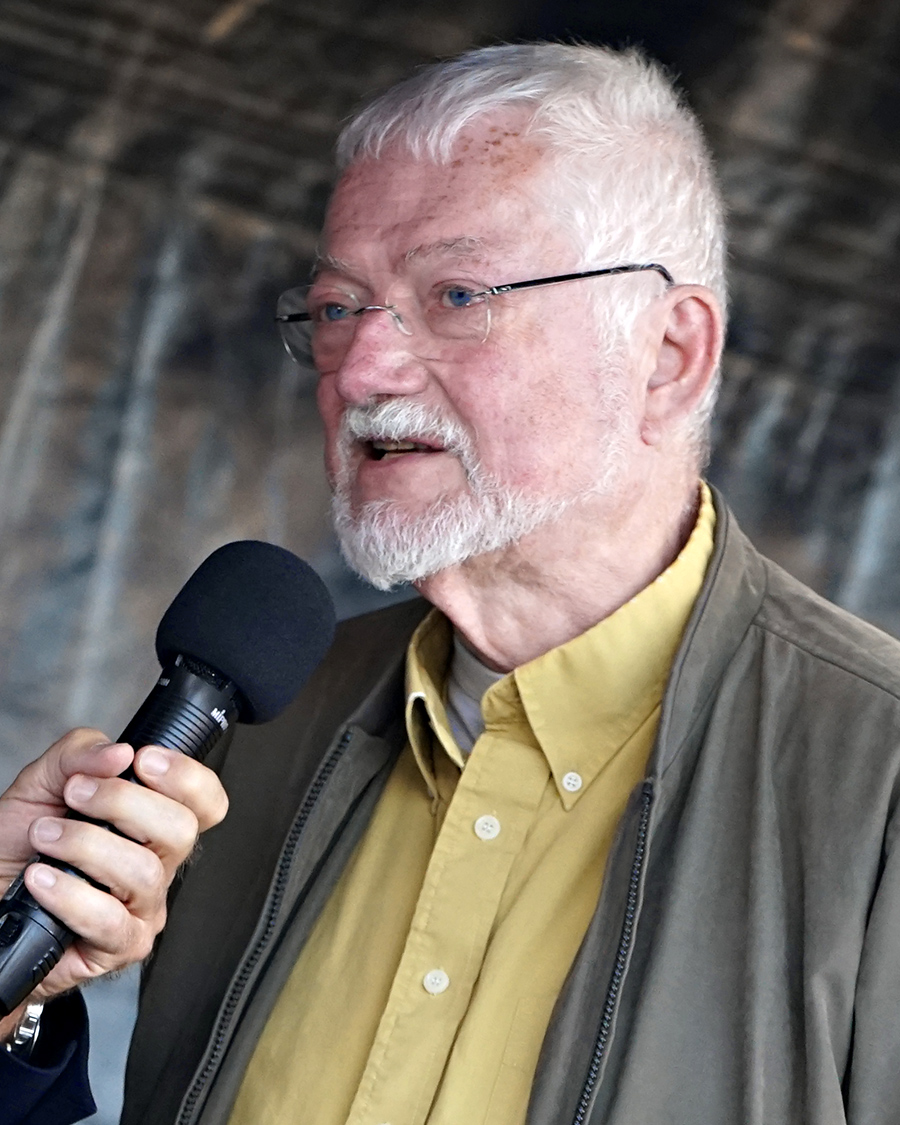 Henrik Elmgreen - Danish expert in cycle sport and former manager of cycling events in Denmark, here from interview during "Stjerneløbet" 14th June 2017 in Roskilde, Denmark